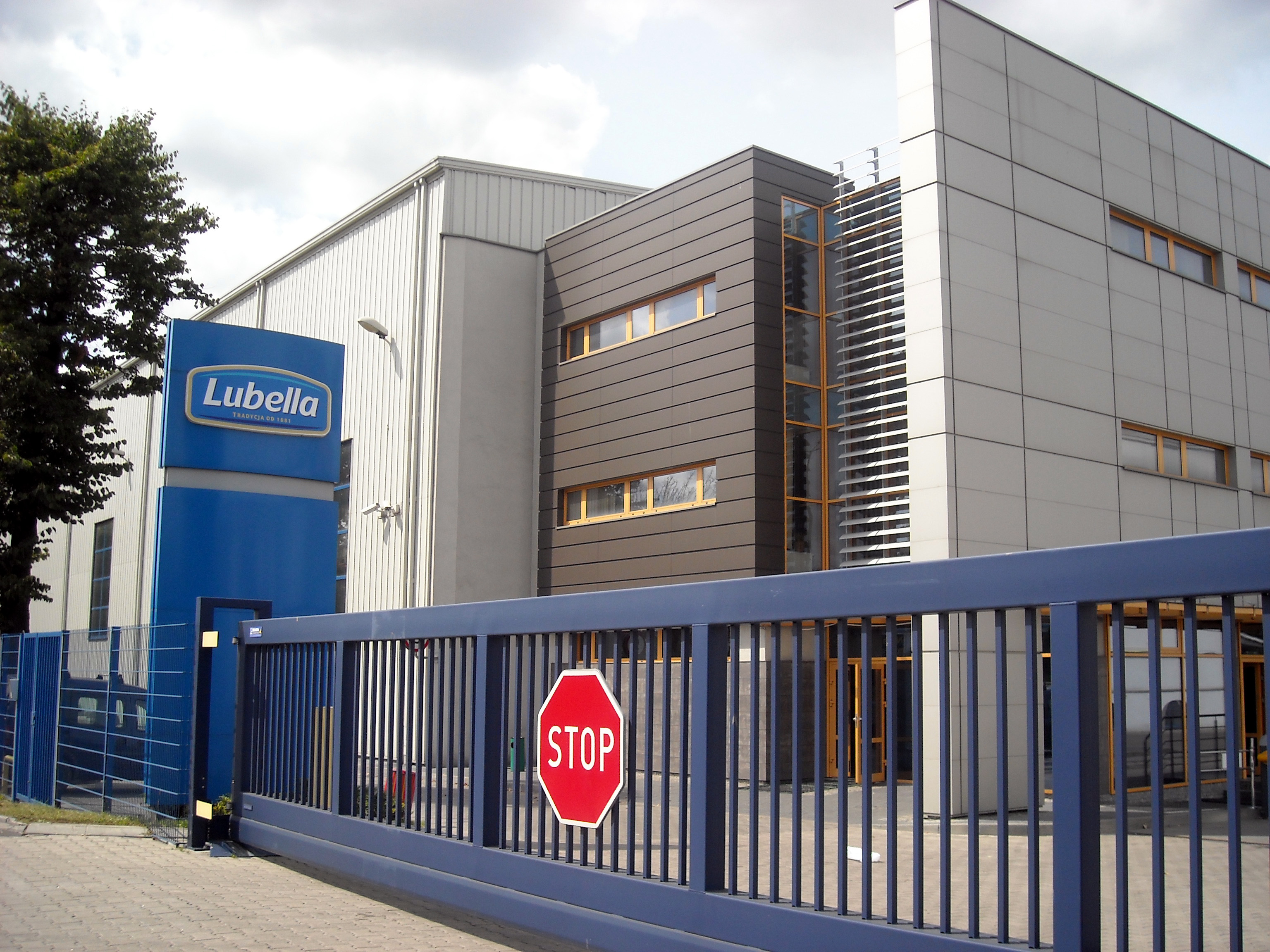 Lubella S.A. - company headquaters at the Wrotkowska Street, Wrotków district, Lublin